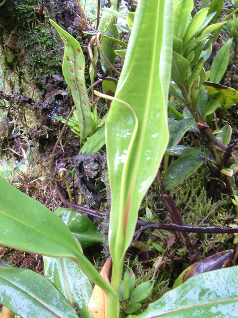 Nepenthes papuana from Western New Guinea (~1300 m asl)